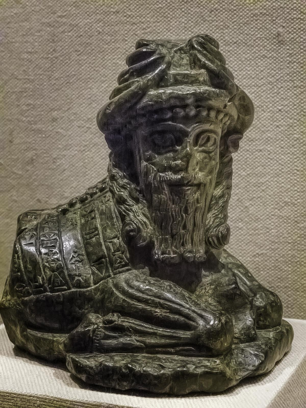 Kursarikku associated with the sun god Shamash Reign of Ur-Ningirsu of Lagash 2150-2100 BCE Serpentine This serptentine (lizardite) sculpture is from southern Mesopotamia, probably Tello (ancient Girsu). The inscription proclaims the sculpture is dedicated to the goddess Nanshe for the life of the Sumerian ruler Ur-Ningirsu. Photographed at the Metropolitan Museum of Art in New York City, New York.